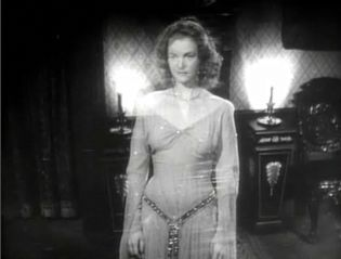 Cropped screenshot of Simone Simon from the trailer for the film The Curse Of The Cat People.